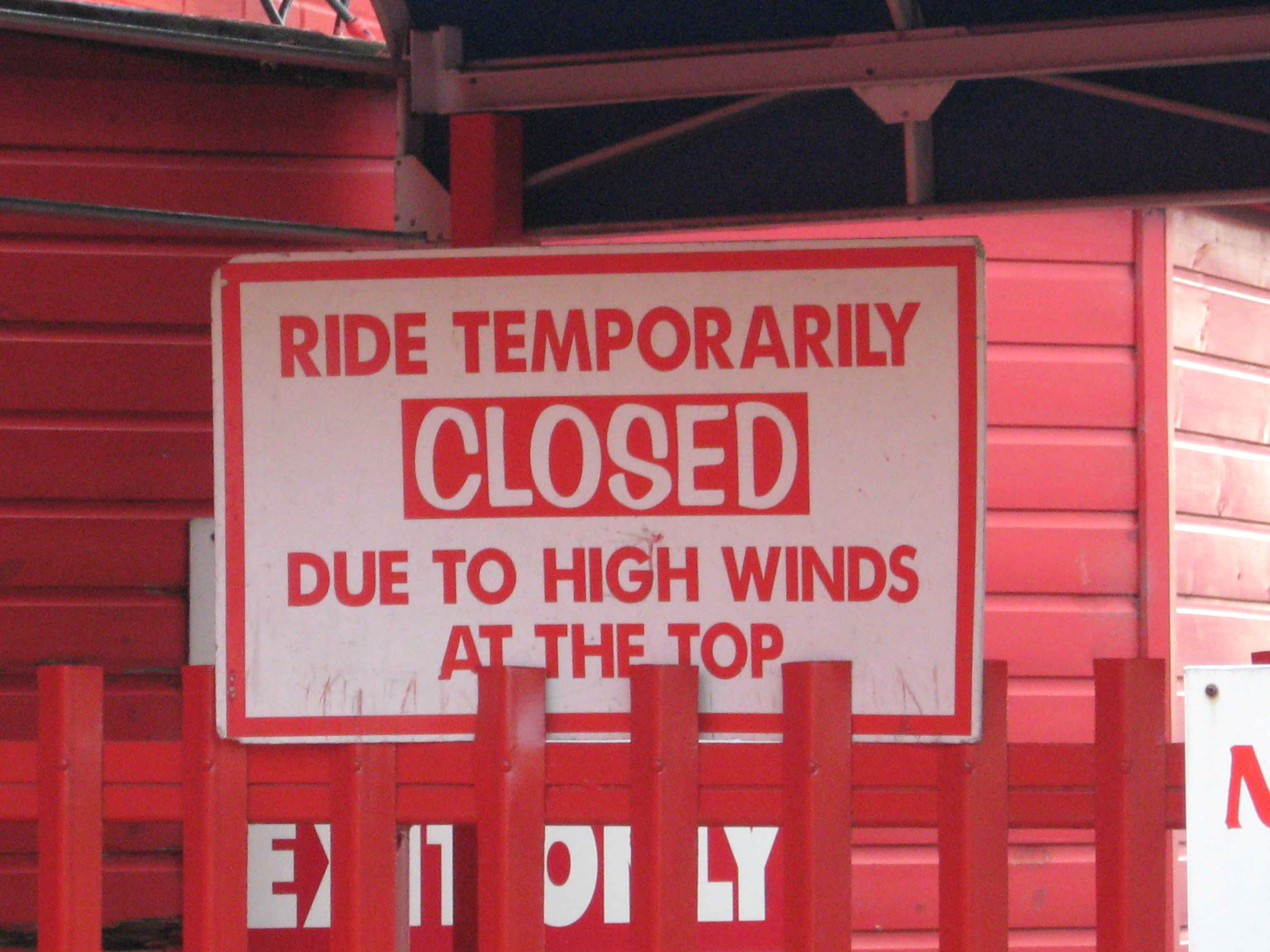 A Sign At The Entrance To Odyssey's Queue Line Explaining That The Ride Is Closed Due To High Winds